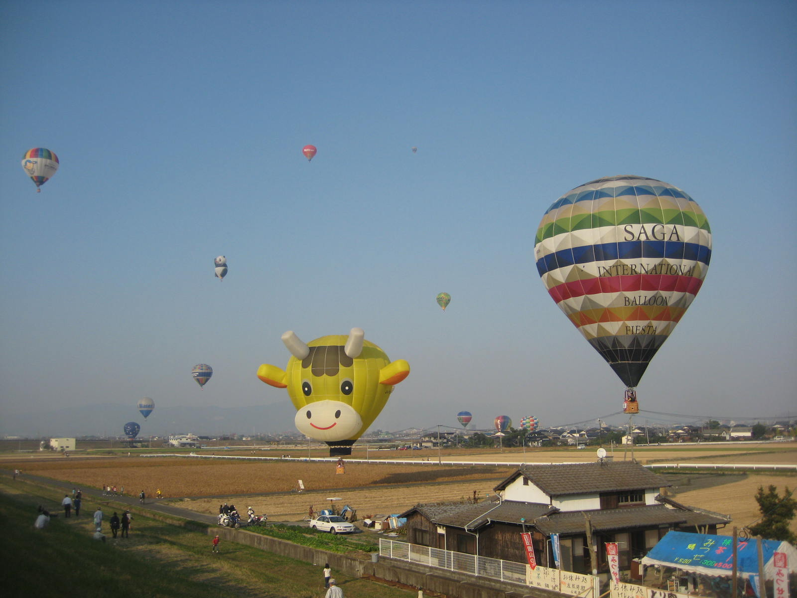 Saga International Balloon Fiesta